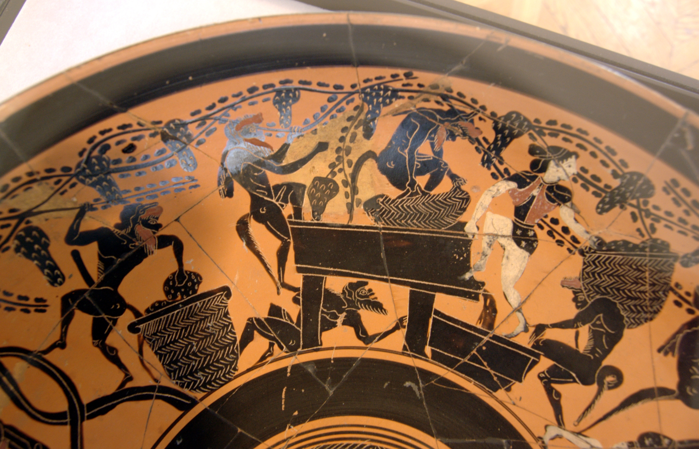 Vintage by sileni and maenads. Attic black-figure cup, end of 6th century BC.